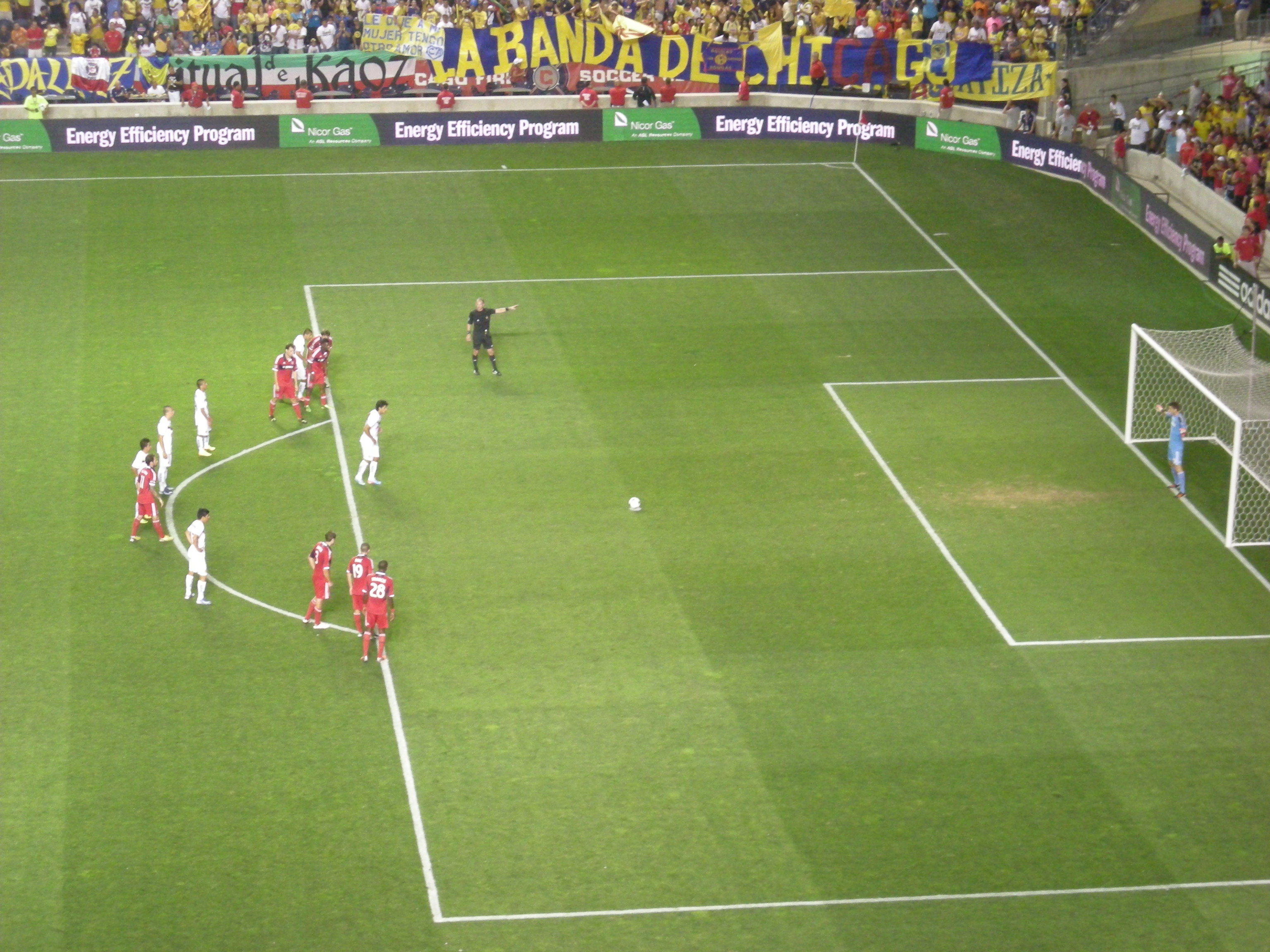 Second-half action during the friendly match between the Chicago Fire and Club América at Toyota Park in Bridgeview, Illinois (United States). Final score: Chicago 2 – 3 América.